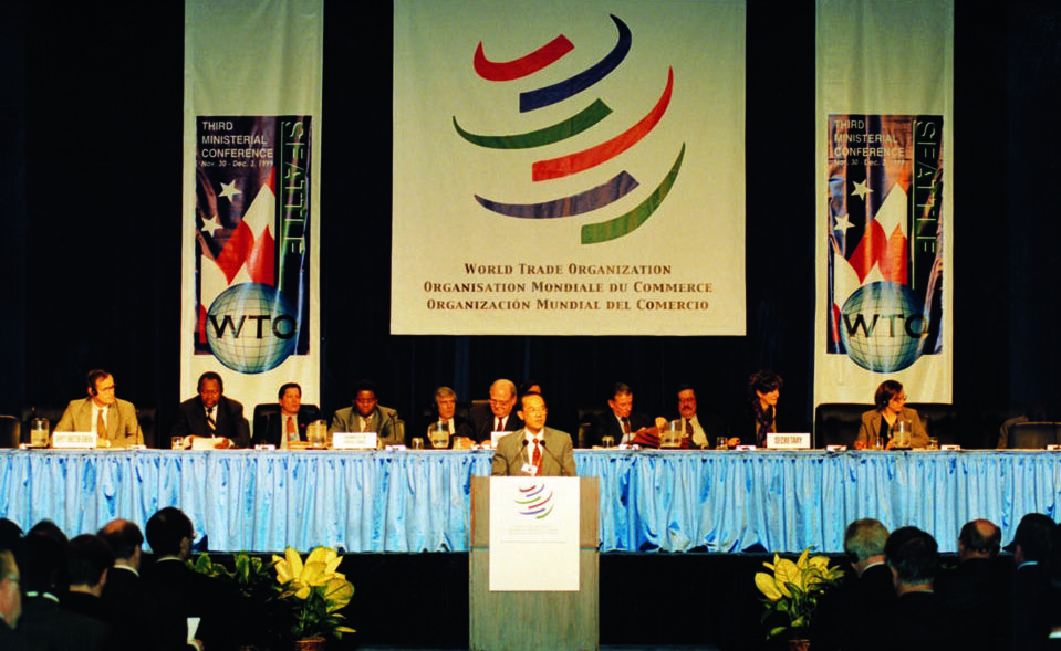 These photos may be reproduced provided attribution is given to the WTO and the WTO is informed. Photos: © WTO